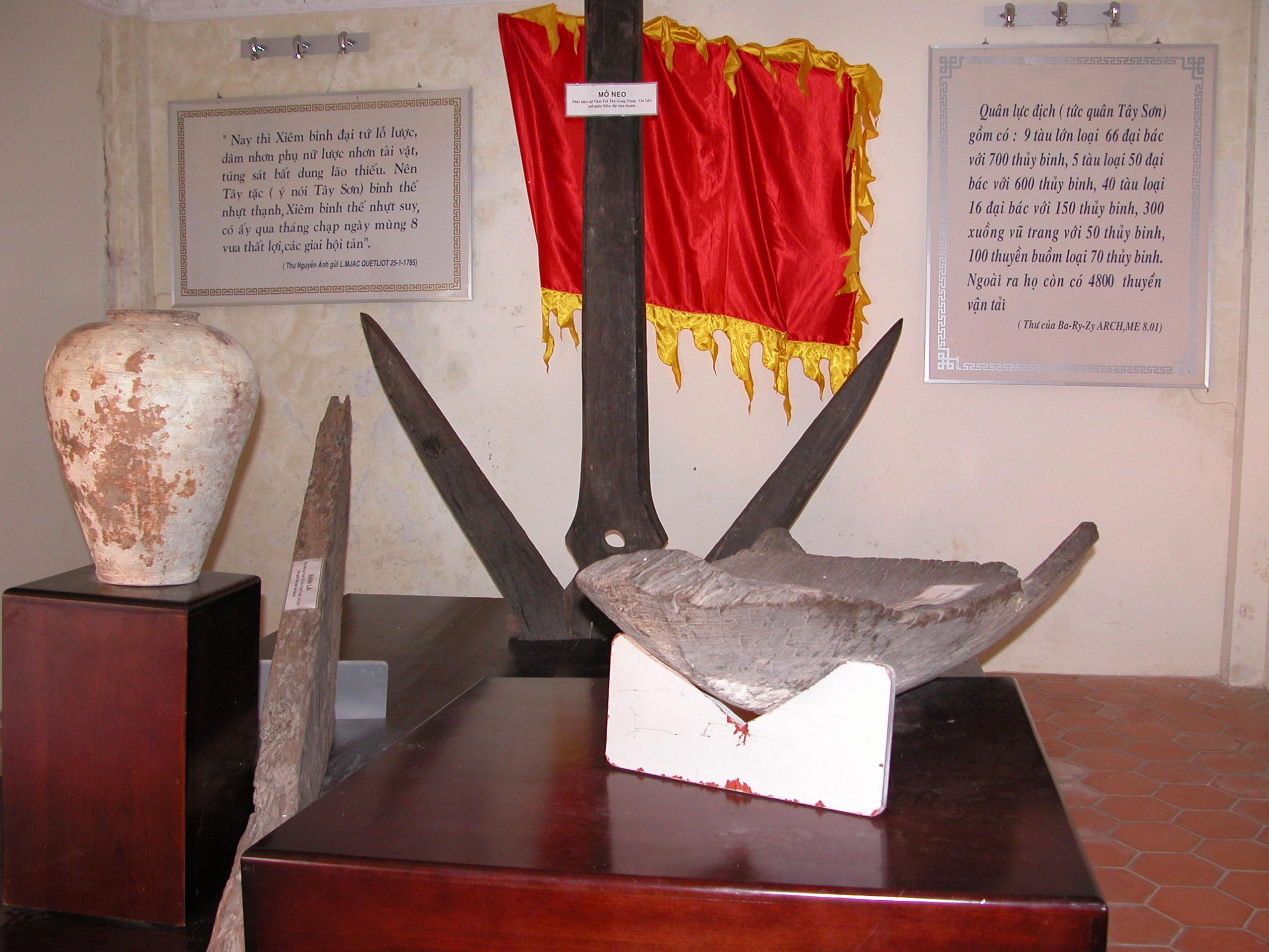 Weapons remained after the Battle of Rạch Gầm-Xoài Mút